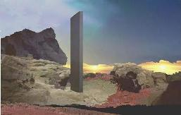 Yatrides' slab monolith such as it appears in the 1st sequence of 2001 a space odyssey. Yatrides' work.